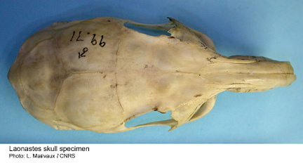 Laotian rock rat's (Laonastes aenigmamus) skull